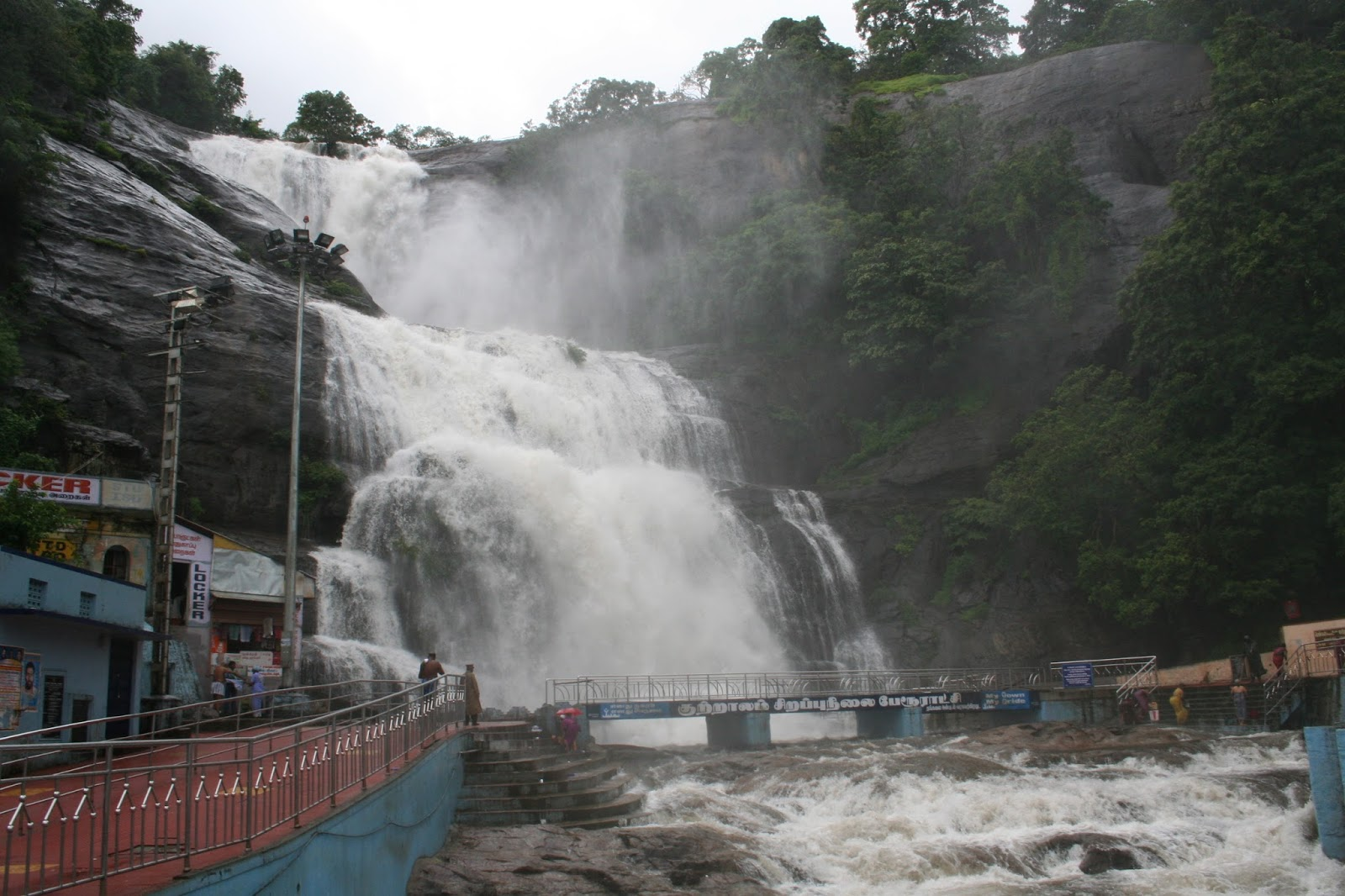 It is in Courtallam in Tirunelveli district, South Tamil Nadu. It has medicinal qualities, popularly called as the "Spa of the South." The water here passes over a lot of medicinal herbs, and therefore has the capacity to cure a number of ailments. There is also a belief that mentally ill gets cured after bathing at the falls.